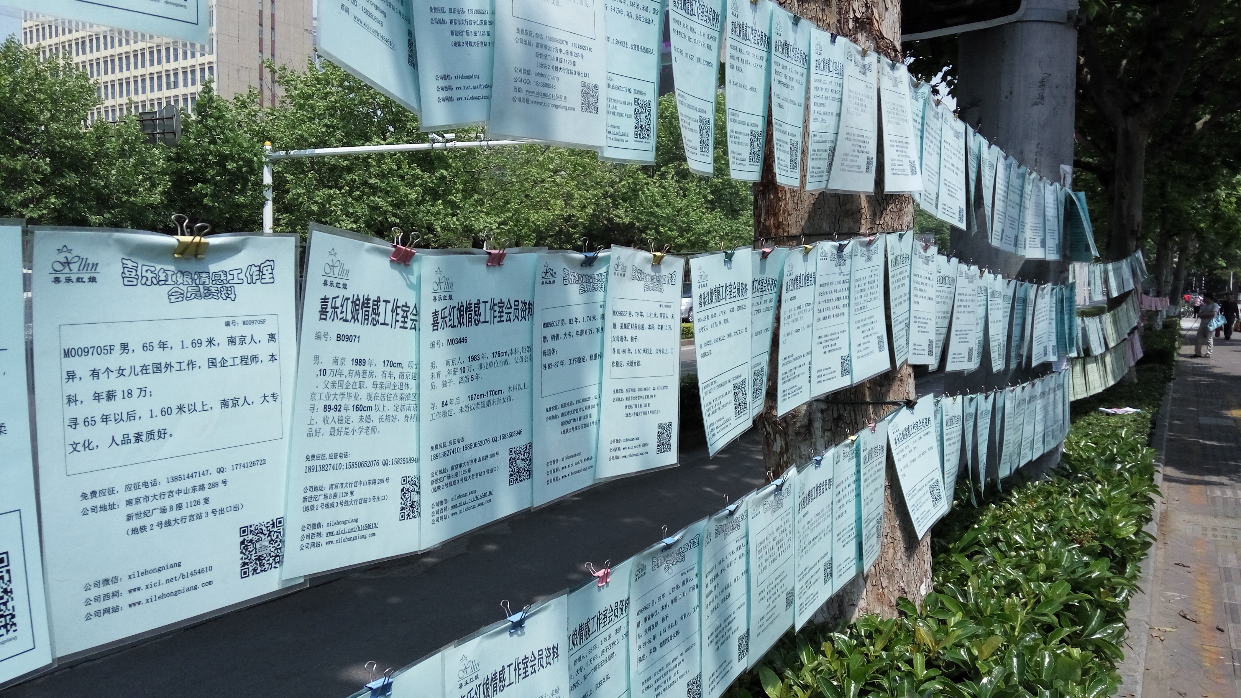 Advertisements in the Chinese city of Nanjing, put up by parents seeking to pair their children with other singles, often without the knowledge of the children involved. The advertisements generally list the person's age, income, assets, and education level, among other things.